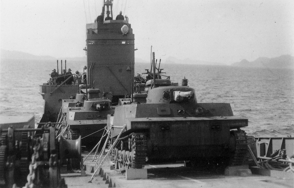 Group of Type 2 Ka-Mi tanks on board of 2nd class transporter of the Imperial Japanese Navy. Original caption from Flickr: "japanese amphibious tanks 1944 saipan"